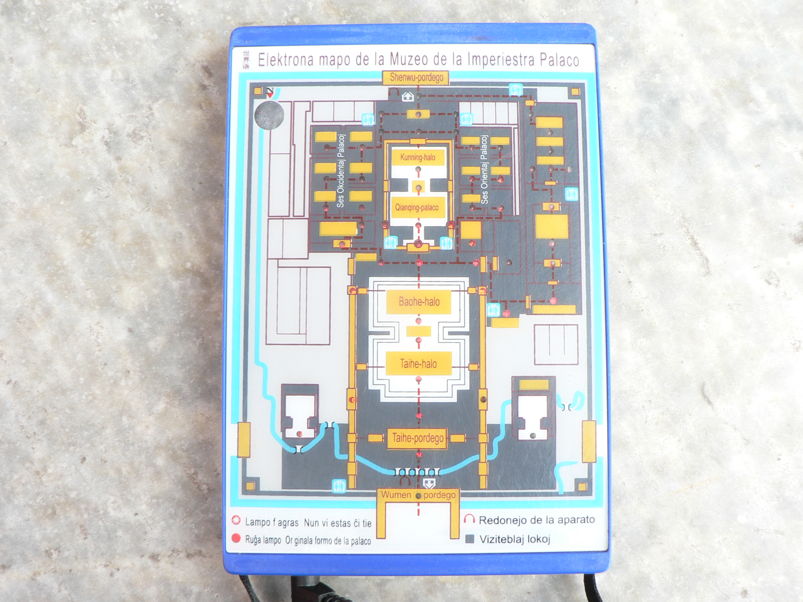 esperanto audio tour